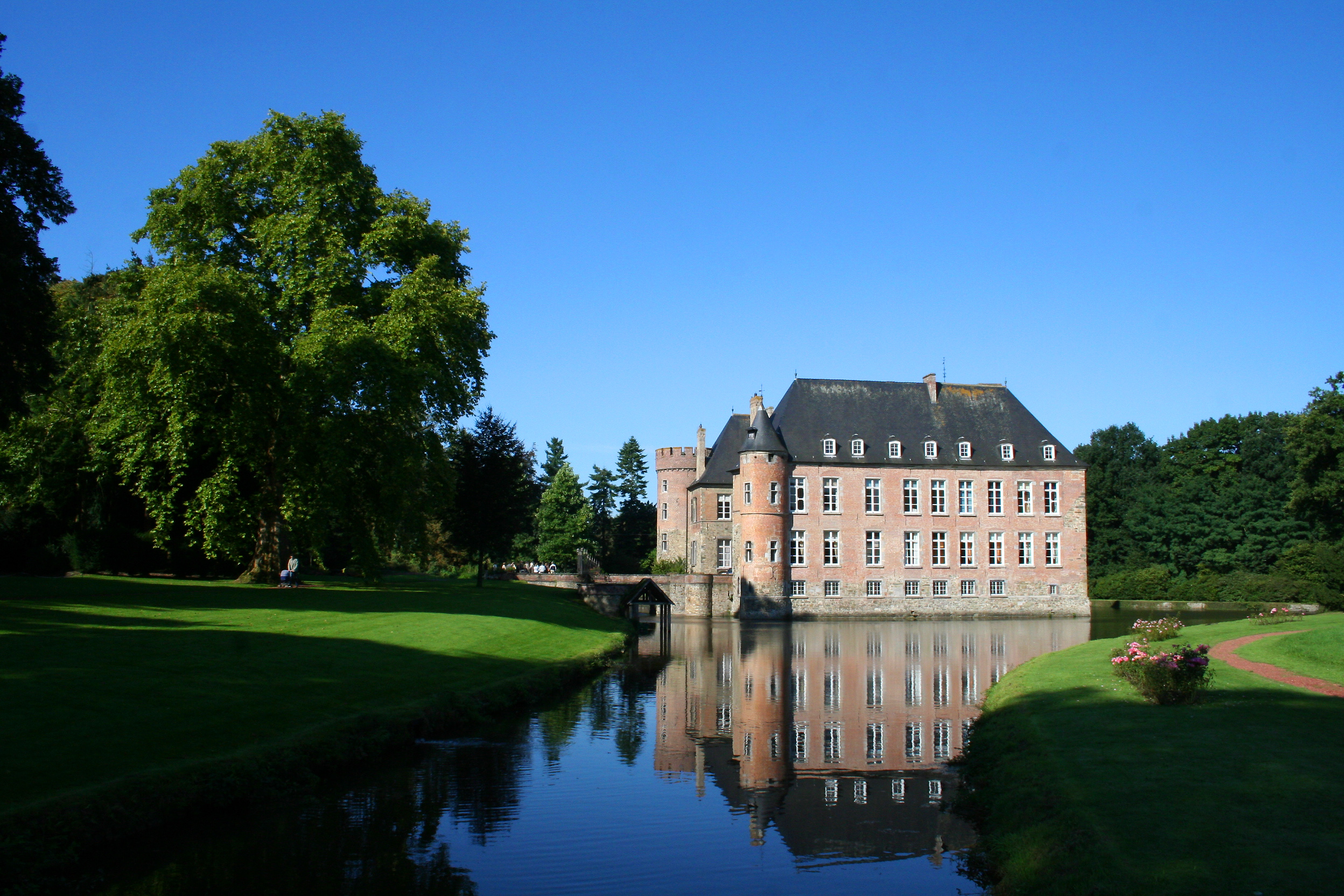 Braine-le-Château, the Robiano castle (XIIth century).